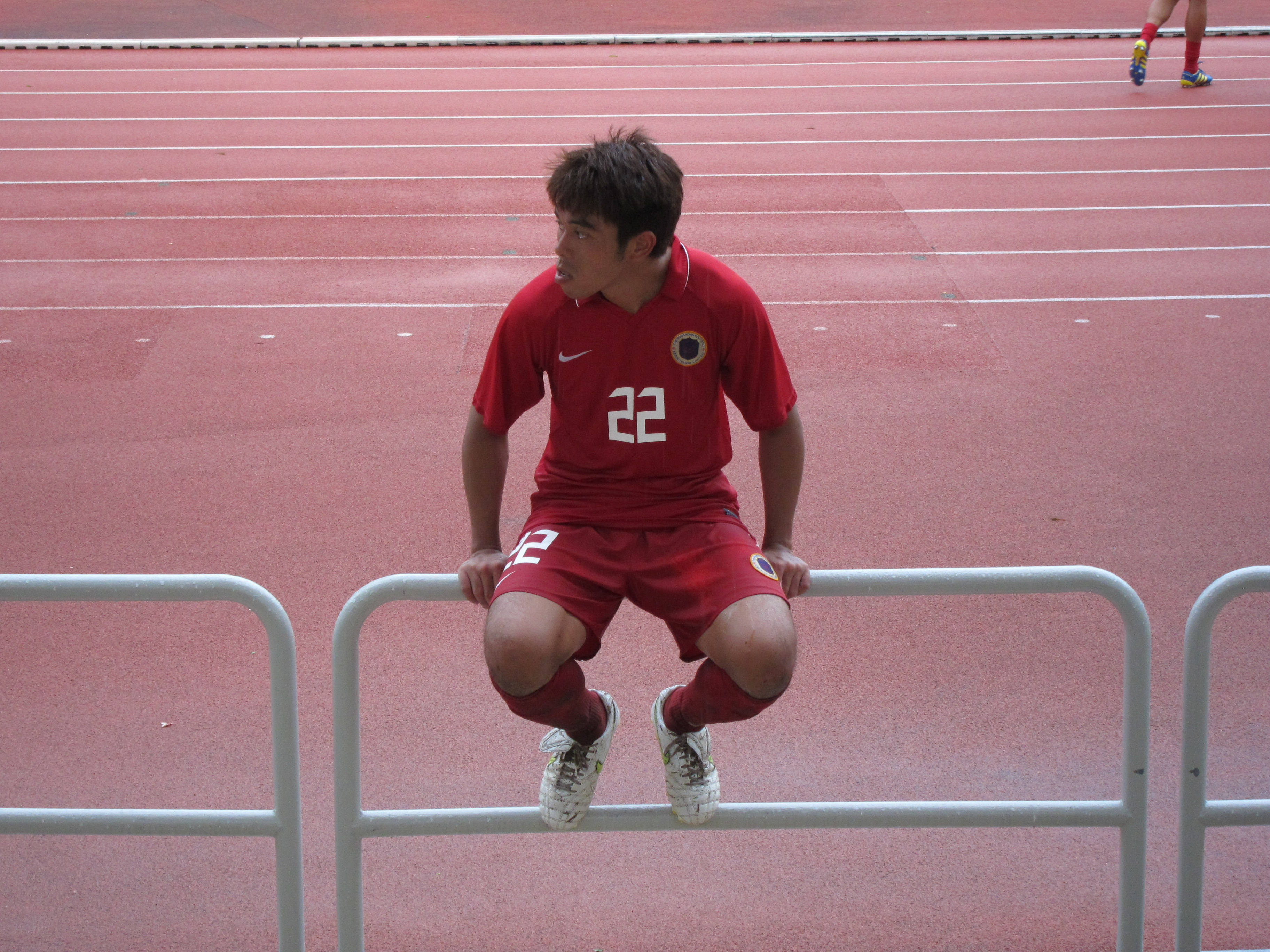 Sham Kwok Keung playing for Hong Kong national football team